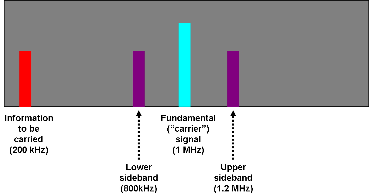 Simplified display of spectrum analyzer showing superheterodyned signals